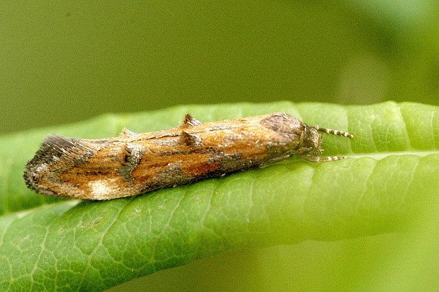 Picture taken in Commanster, Belgian High Ardennes . Species: Mompha idaei